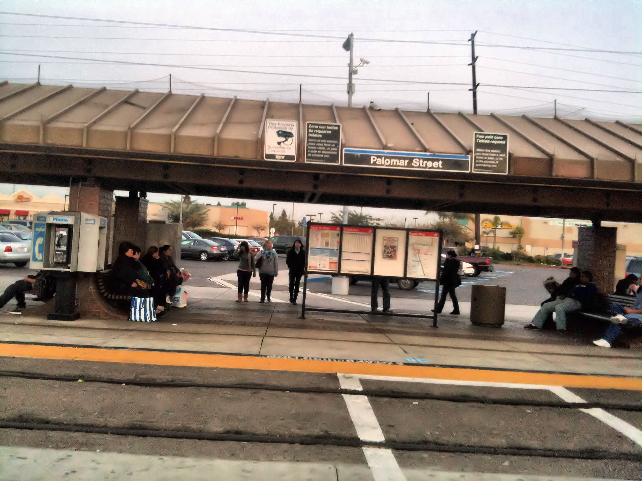 Palomar Trolley station